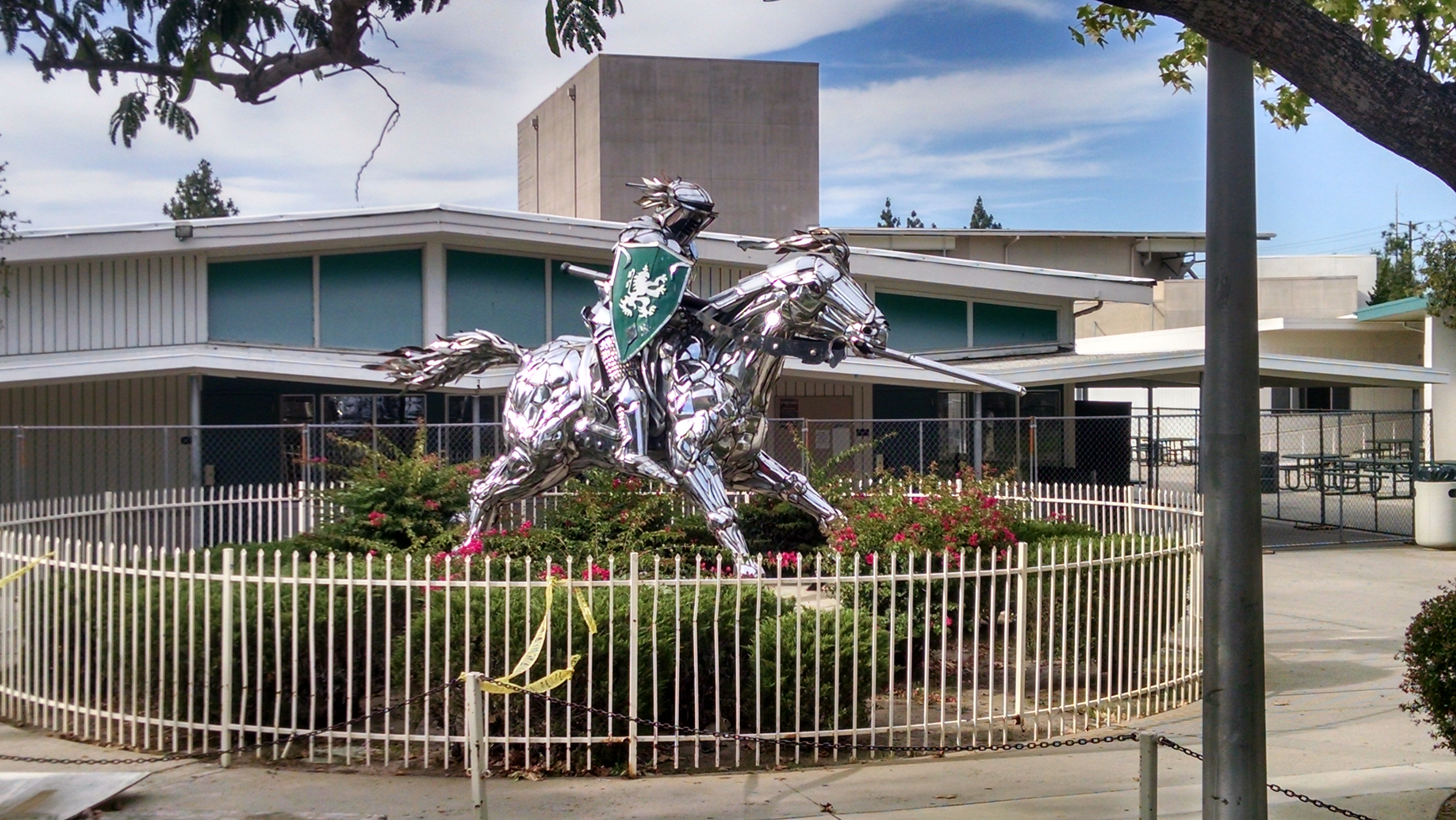 Thousand Oaks High School sculpture